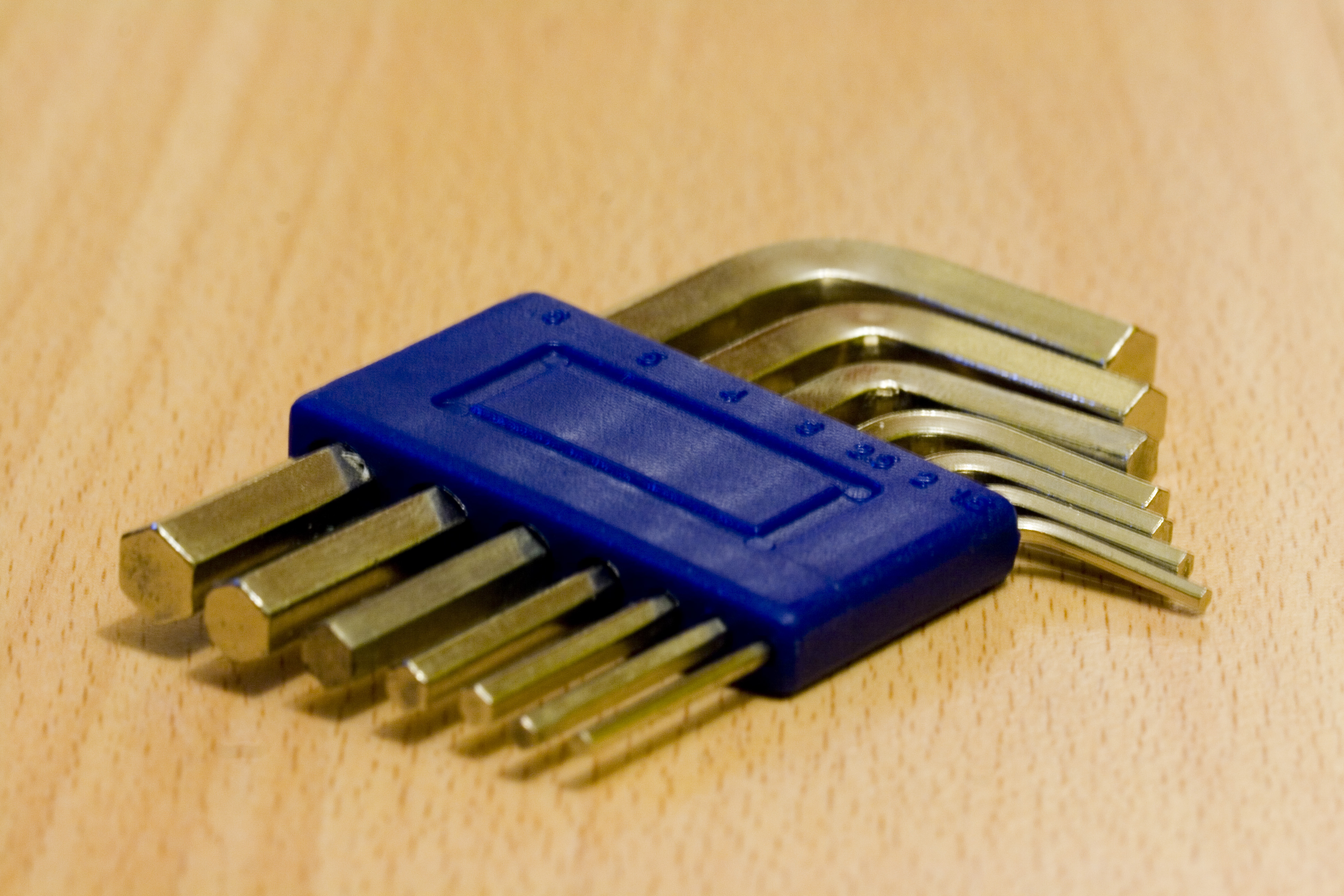 Hex keys